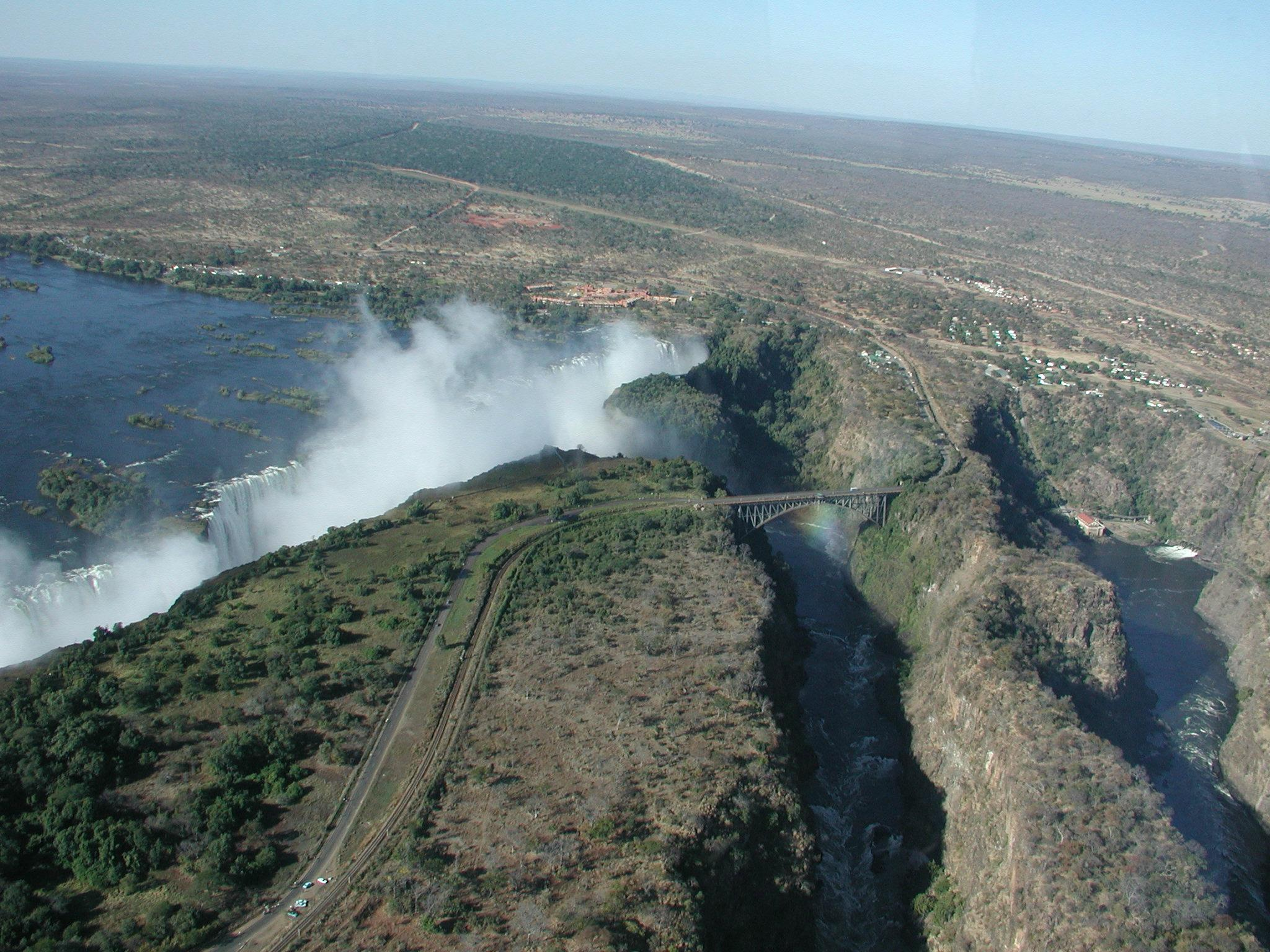 "Here's a view of Victoria Falls from the helicopter. (You'll probably want to click the image to see a larger picture, where you'll find this caption waiting for you at the bottom.) At the left the broad Zambezi plunges 100 metres into the first gorge, raising the eternal cloud of mist and forming a rainbow visible in front of the bridge across the gorge. We're overflying Zimbabwe at the moment; the "Knife Edge" from which the first photo of the falls above was taken protrudes from the Zambia side above and to the left of the bridge. The bungee jumping platform is visible at the centre of the bridge, near the top of the rainbow. Electricity generation in Zambia is in excess of 99% hydroelectric; a power station is visible at the right of the image, along with outflow from the turbines into the gorge. After the falls, the Zambezi traverses a series of zigzag gorges, the first two of which are visible here." John Walker [1]